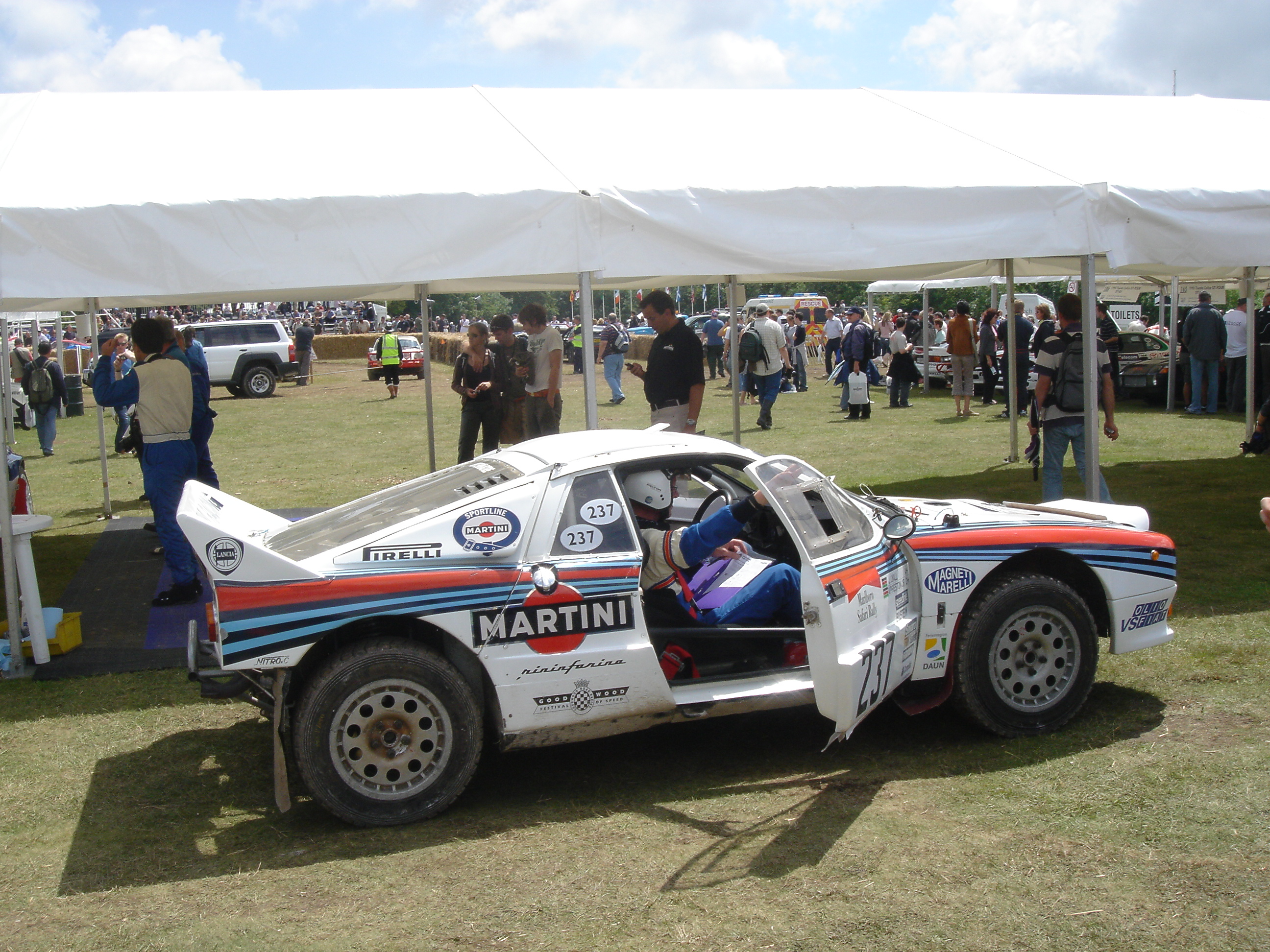 Goodwood Festival of Speed 2007 - Lancia 037 at start of forest rally stage